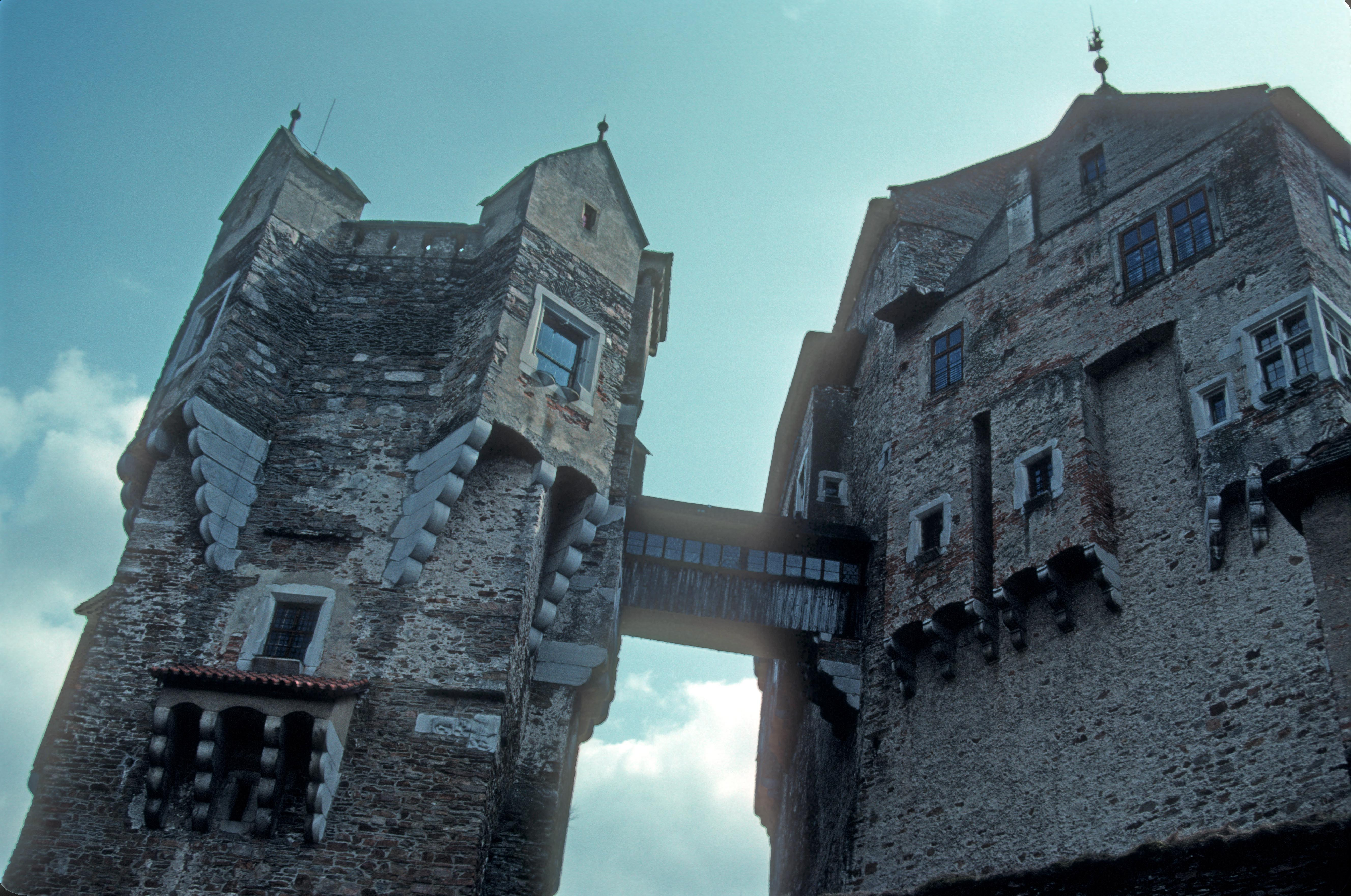 THE COVERED BRIDGE CONNECTS TWO PORTIONS OF THE CASTLE AND IS OFFICIALY LISTED IN THE WORLD GUIDE OF COVERED BRIDGES WITH NUMBER CZ-01-02-07-08